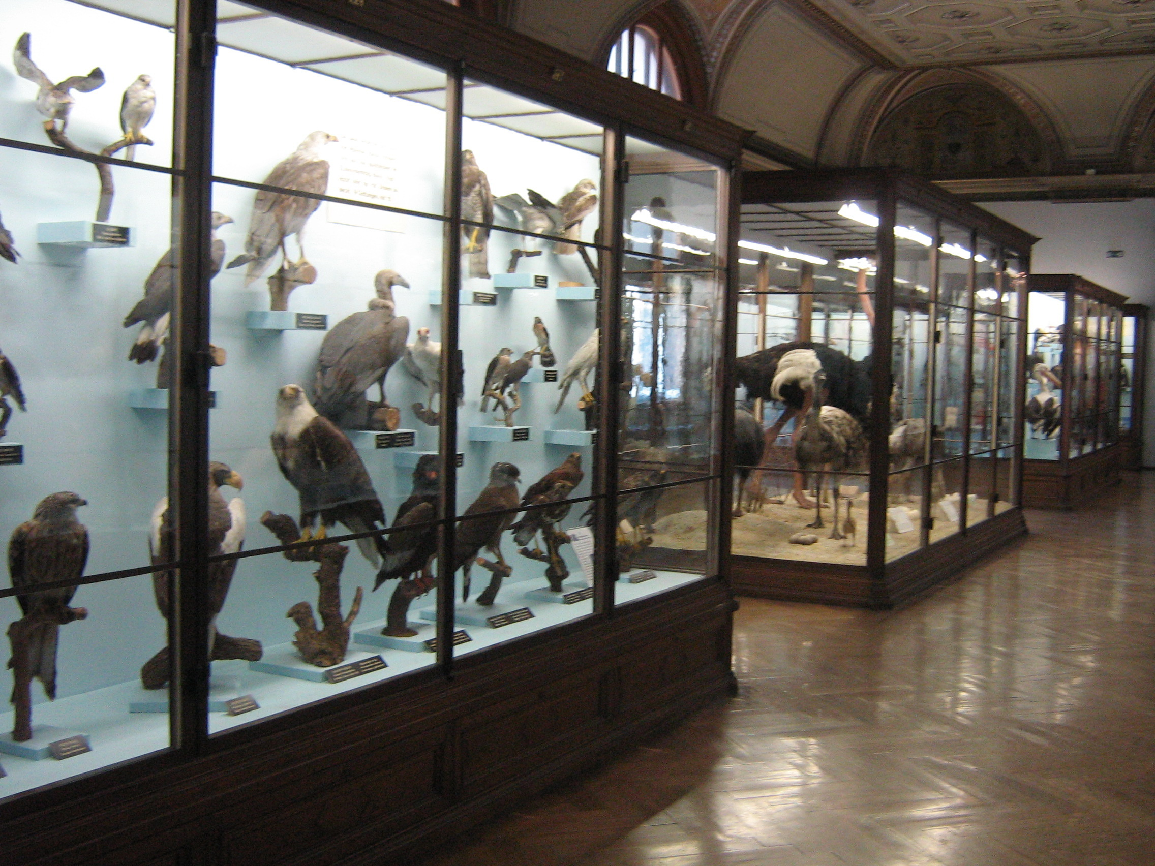 Austria, Vienna, Naturhistorisches Museum